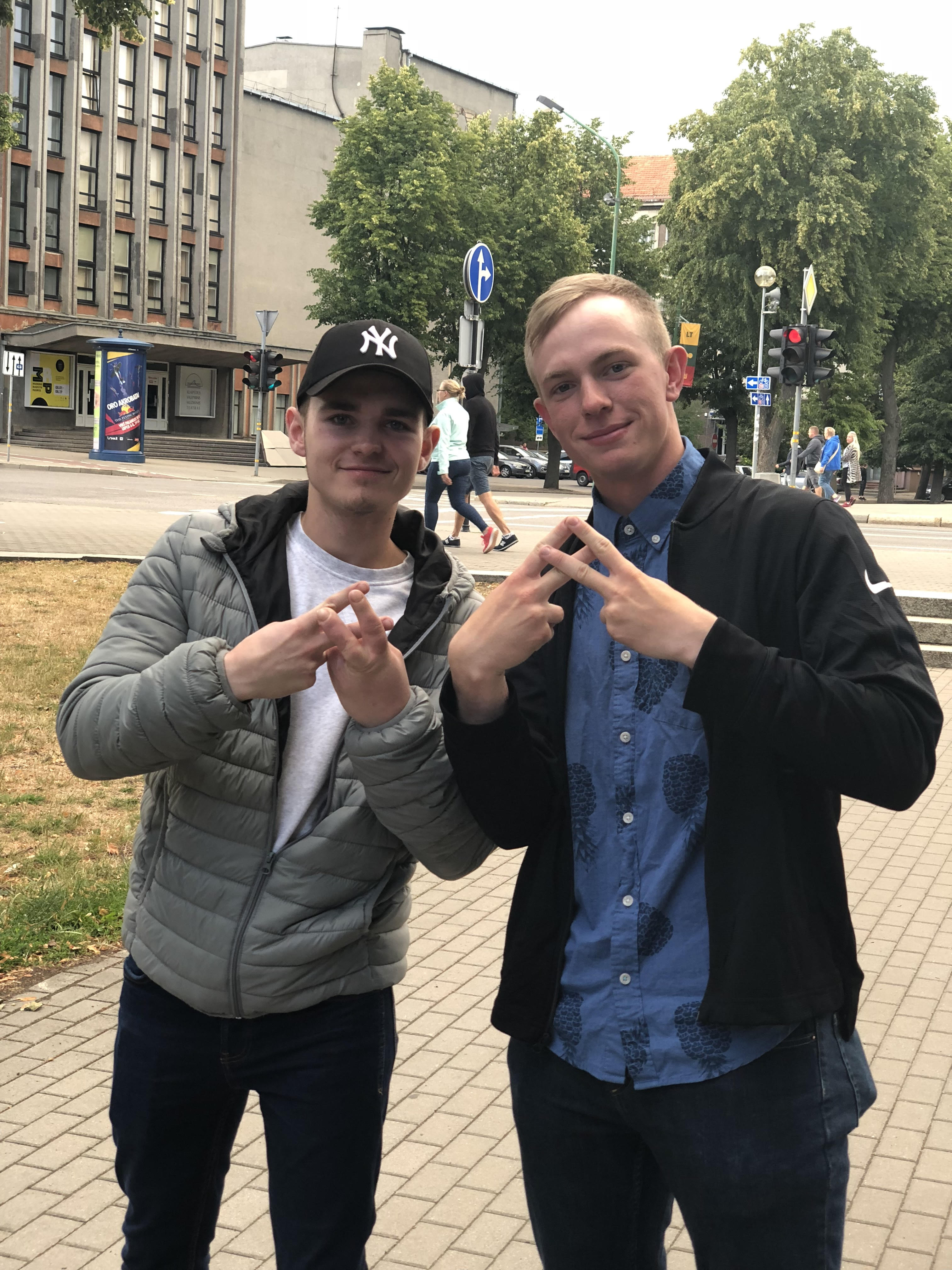 This is a picture of me (a guy from USA) and my best friend Armandas (from Lithuania). This picture represents the global effort it takes to make an article on Wikipedia and how we need each other.